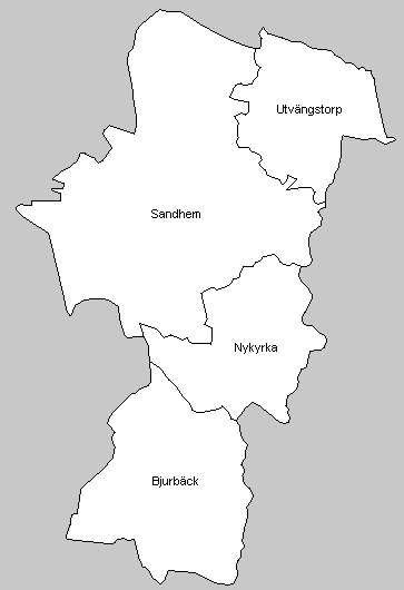 Parishes in Mullsjö municipality